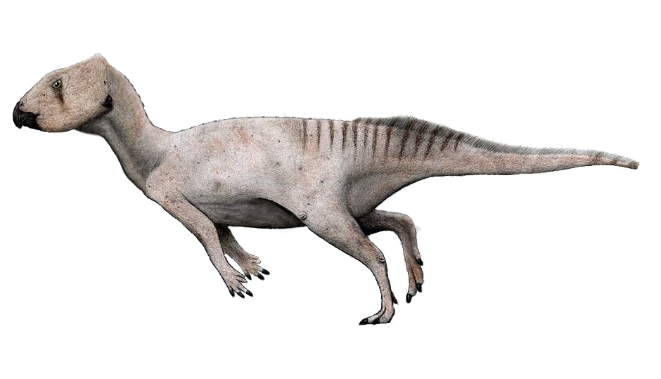 Life restoration of Mosaiceratops based in the skeletal reconstruction by Wenjie Zheng, Xingsheng Jin & Xing Xu